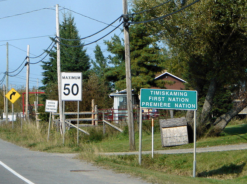 Timiskaming First Nations Reserve, Quebec